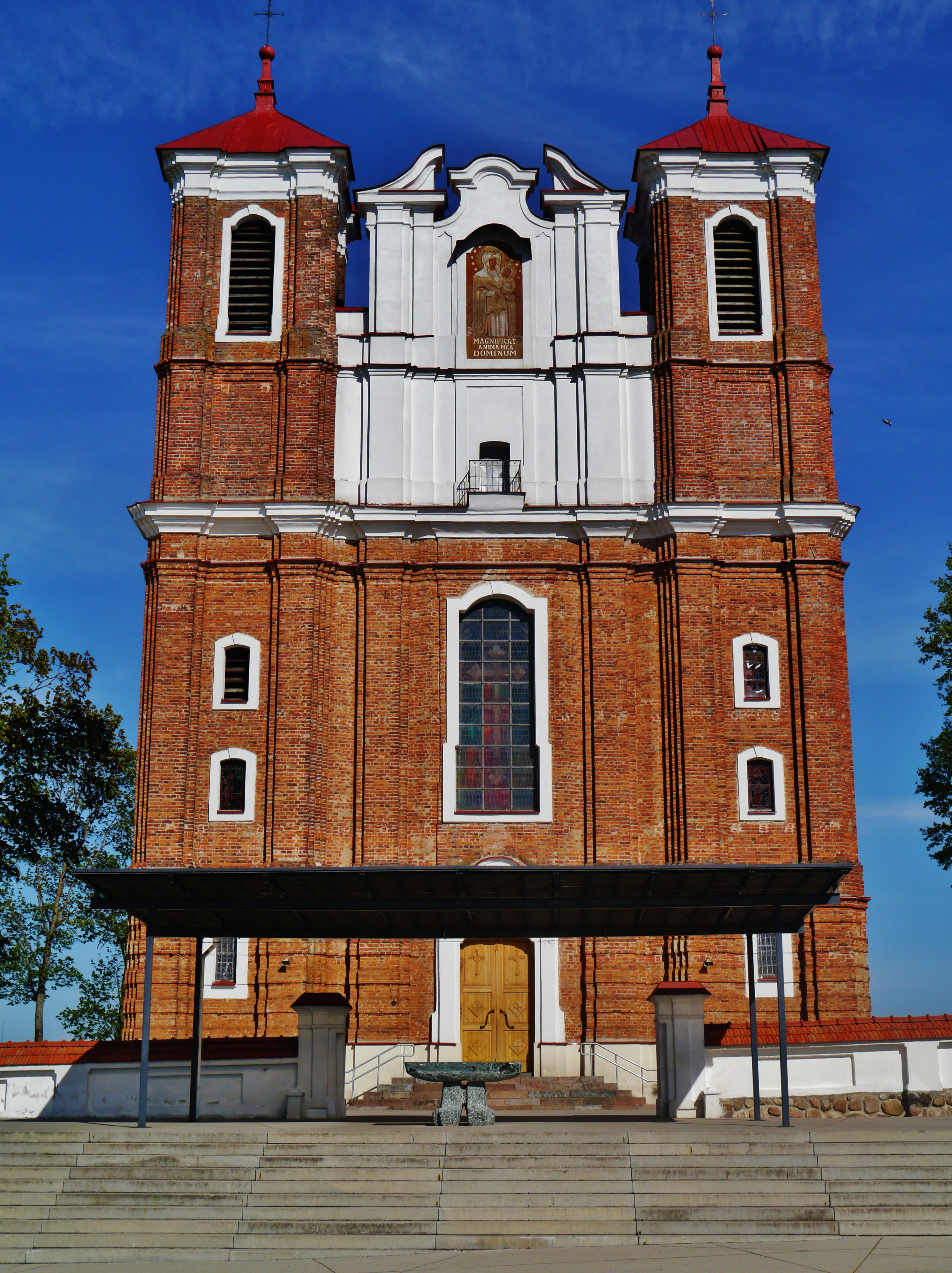 Facade of the Basilica of Our Lady Nativity, Siluva, Lithuania